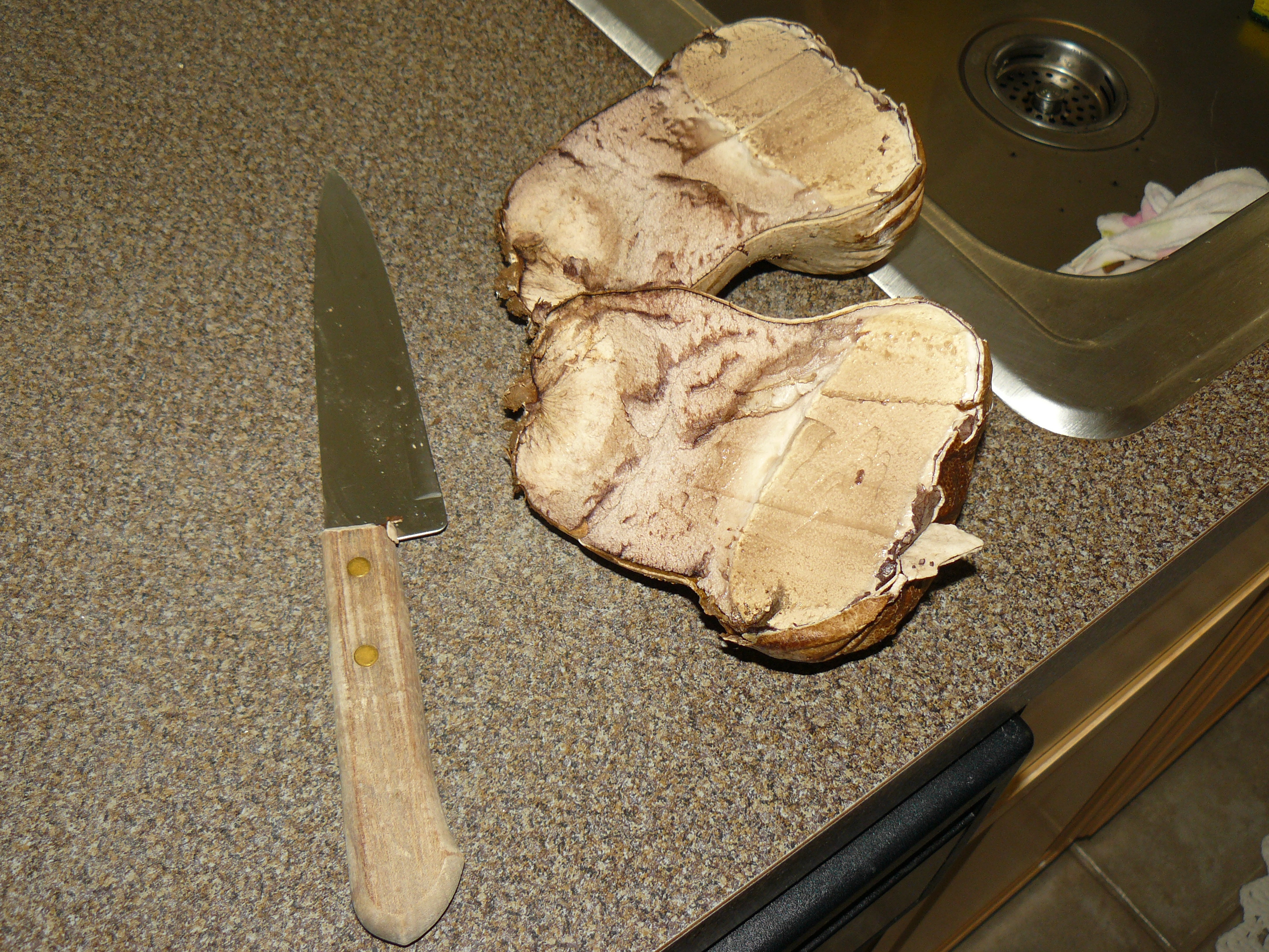 Slices of the puffball mushroom Calvatia craniiformis. The pufbbal is edible when the internal tissue (the gleba) is still firm and white (this specimen is past its prime).